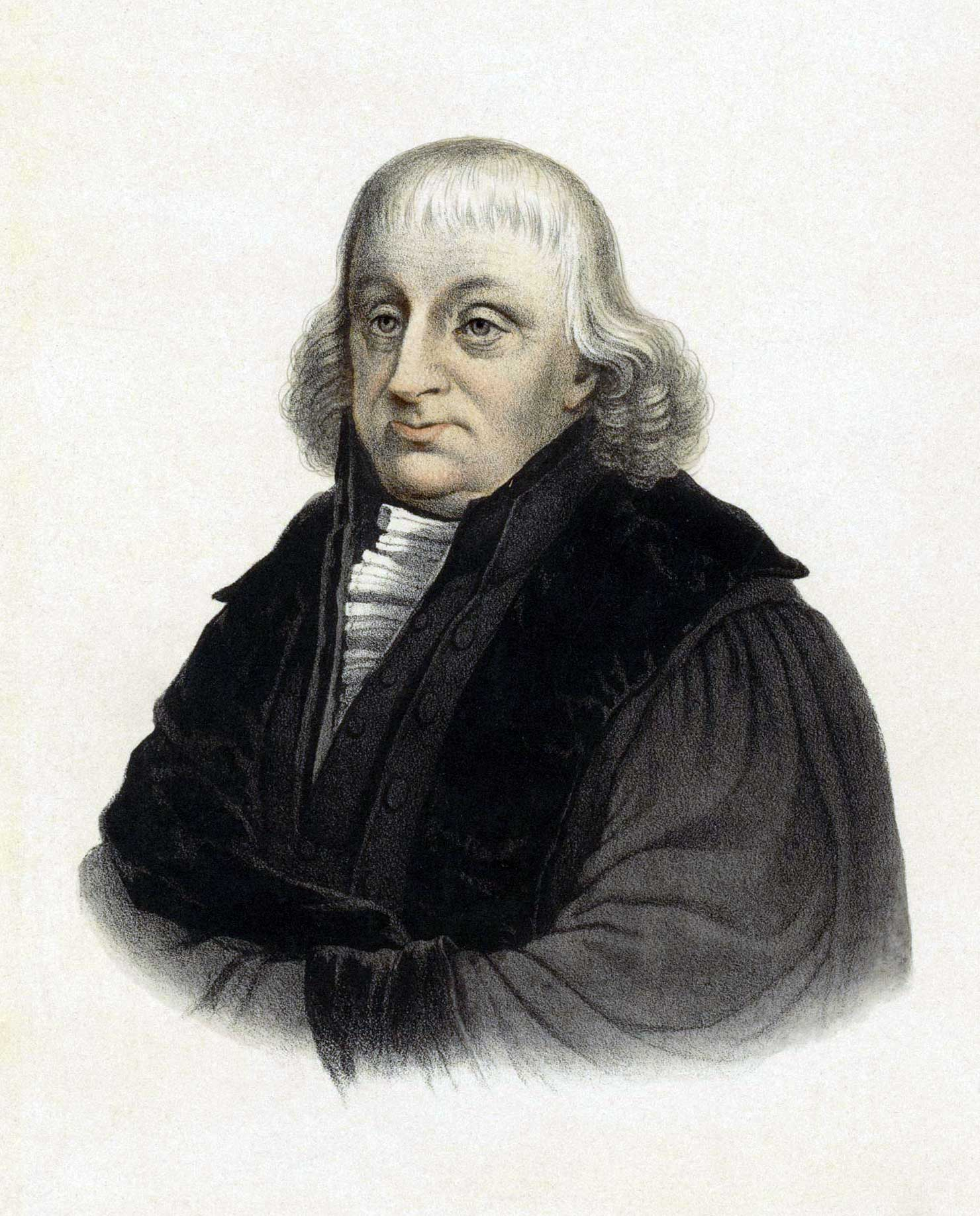 Eduard Hageman (1749-1827) Dutch jurist